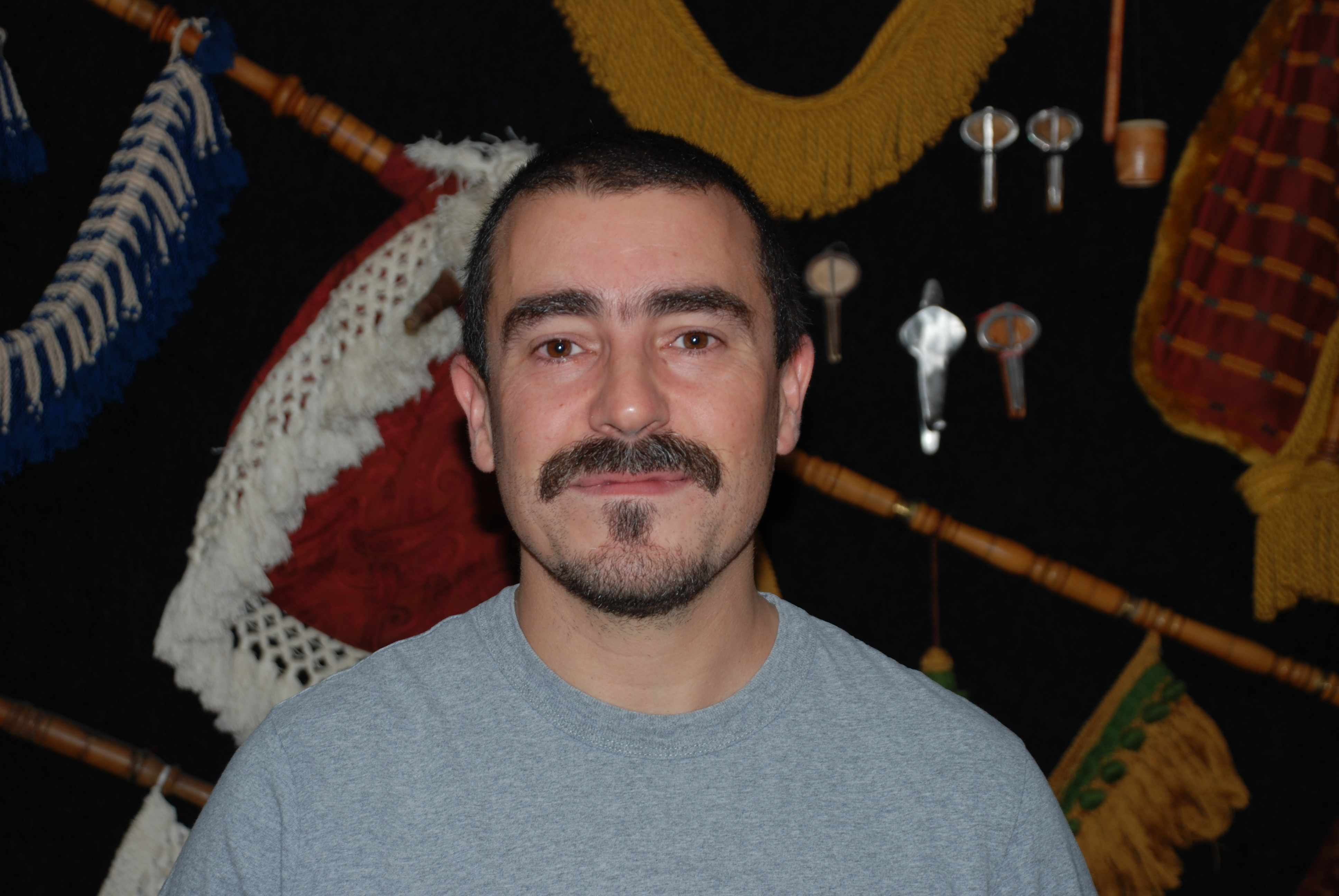 Pablo Carpintero Arias. Santiago de Compostela 2009